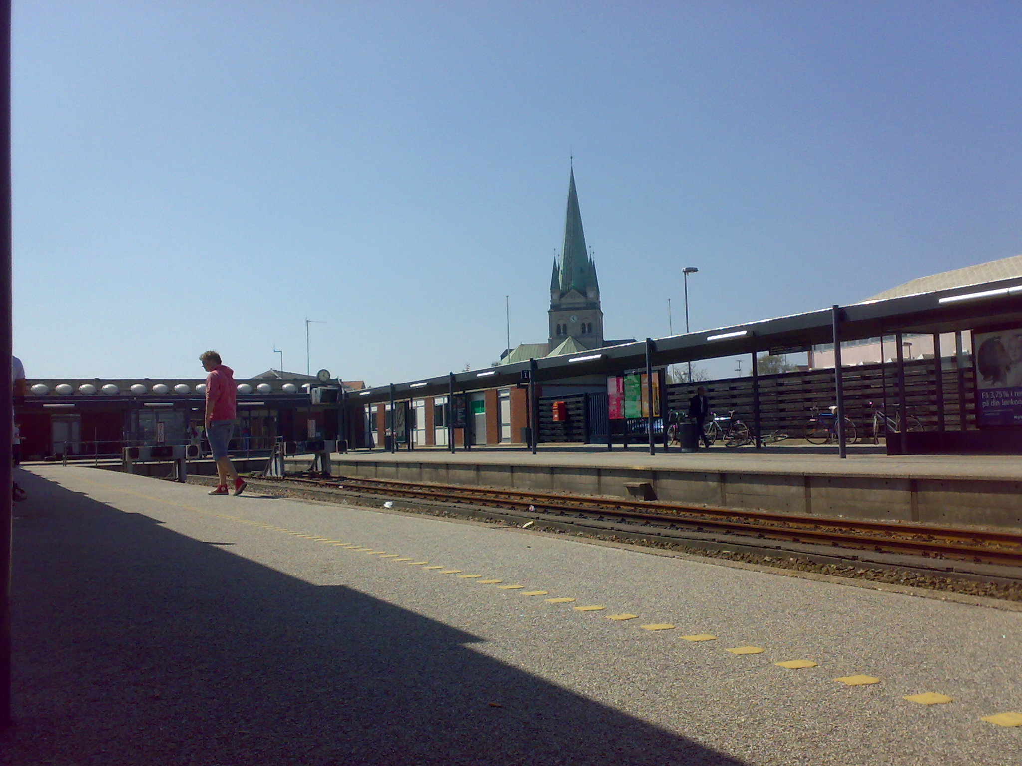 Frederikshavn station, taken from Platform 2